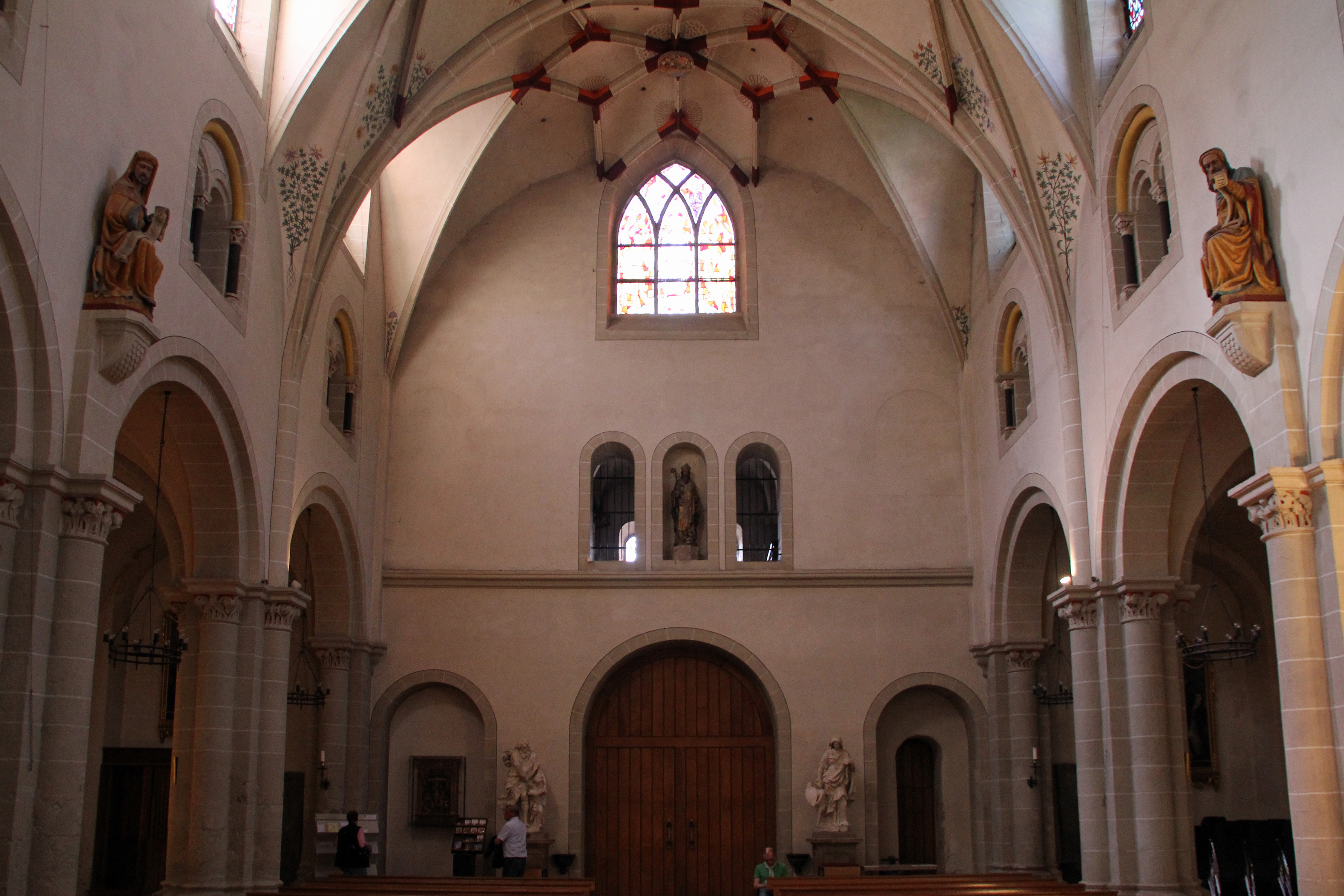 Basilica of St. Castor in Koblenz